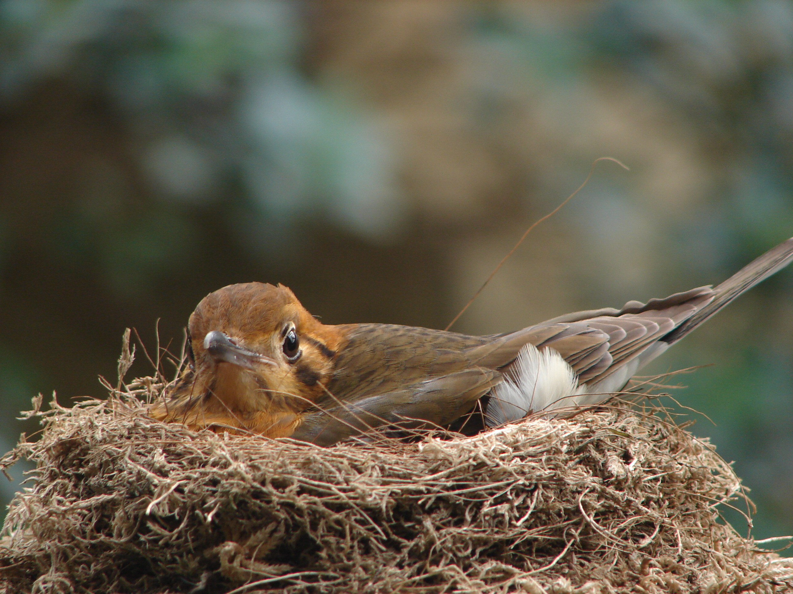 Images from London Zoo. Location: NW1 4RY